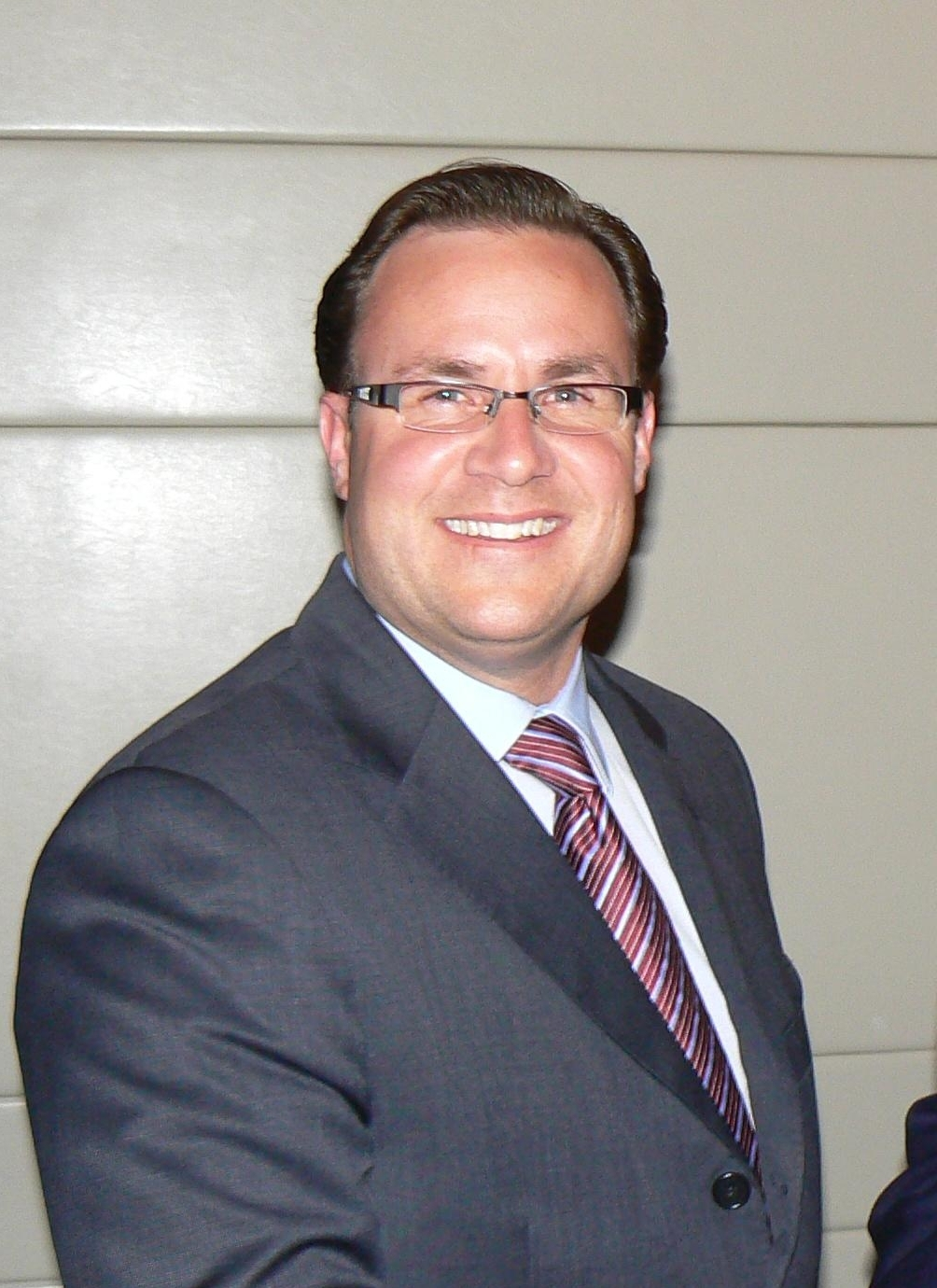 Rob Norris